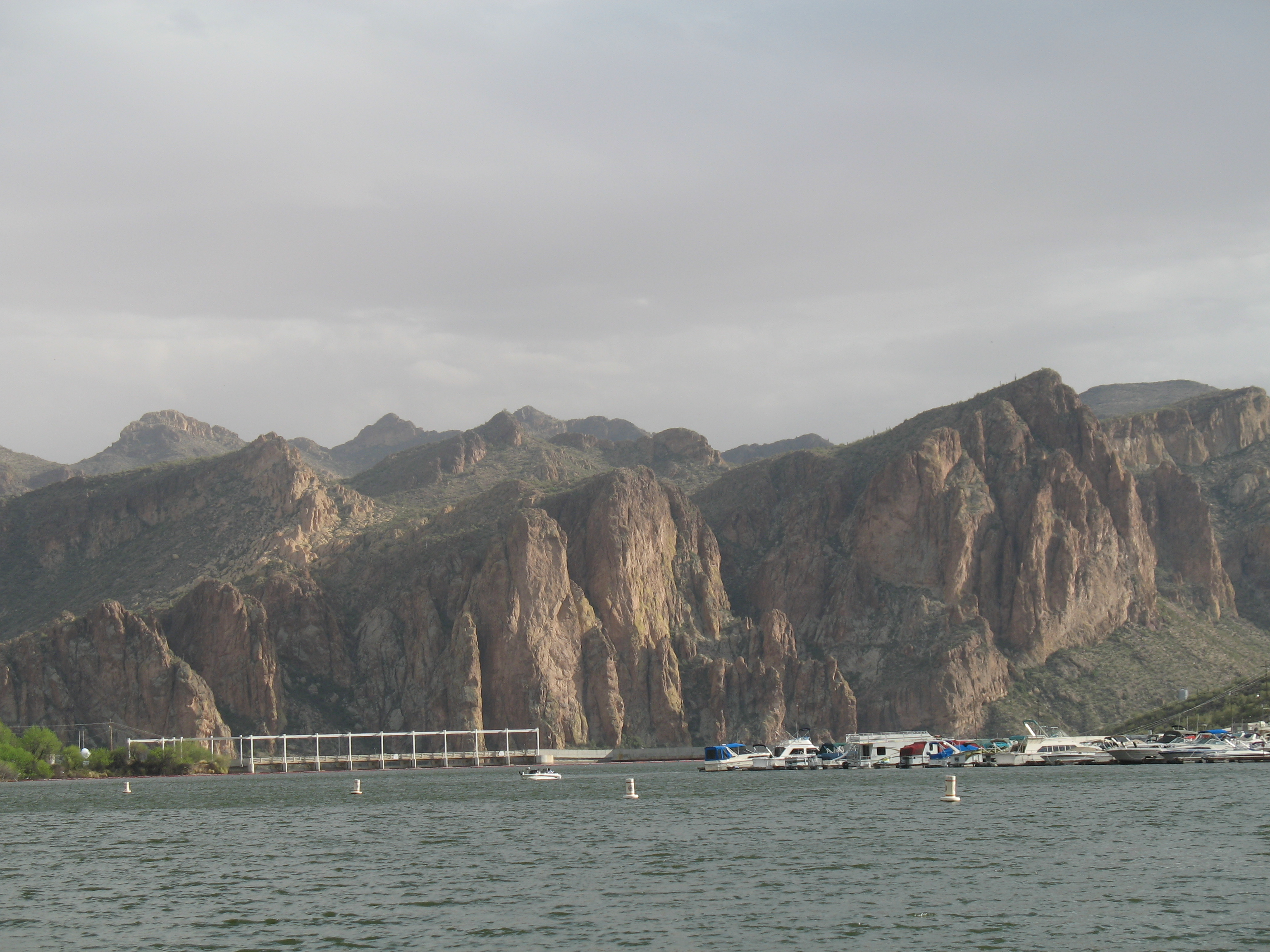 Saguro Lake and the marina.